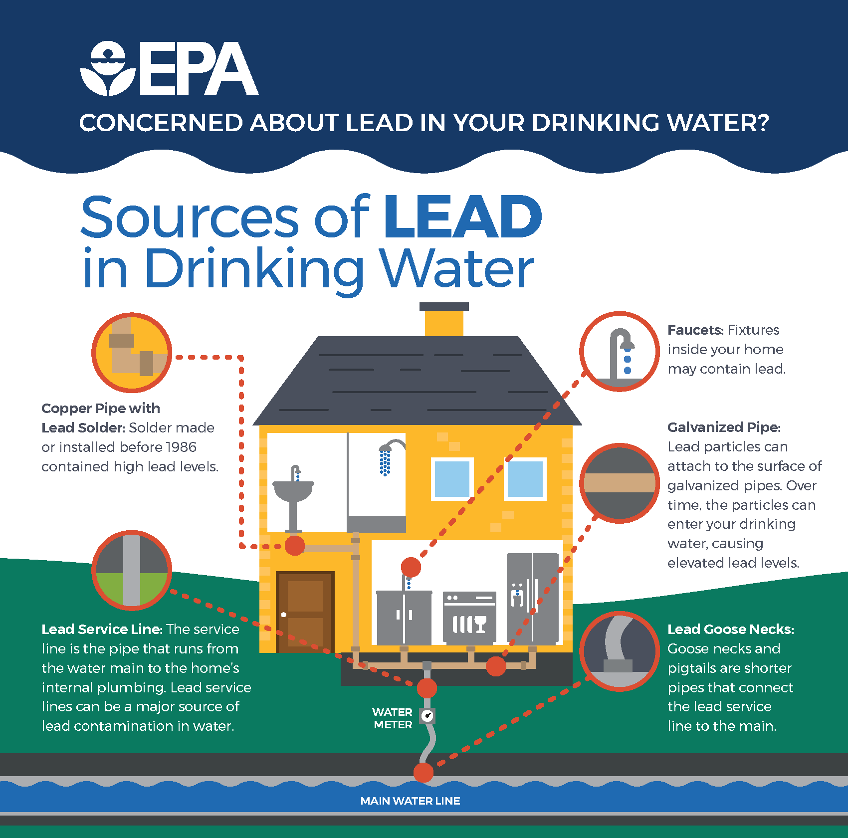 Illustration of sources of lead in drinking water in residential buildings in the U.S. Cropped from larger illustration.